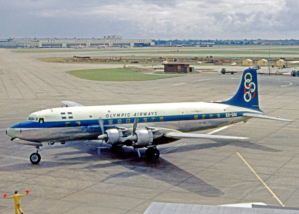 Douglas DC-6B SX-DAI of Olympic Airways at London Heathrow in 1963